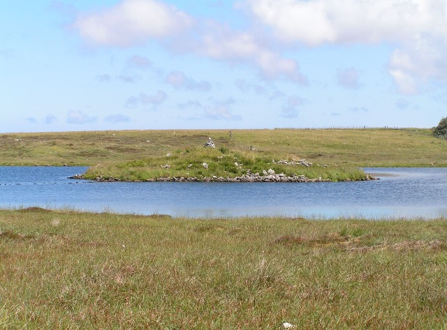 Dun in Loch Steinacleit, Isle Of Lewis. Note the causeway of stones on the left, linking the structure to the loch bank.